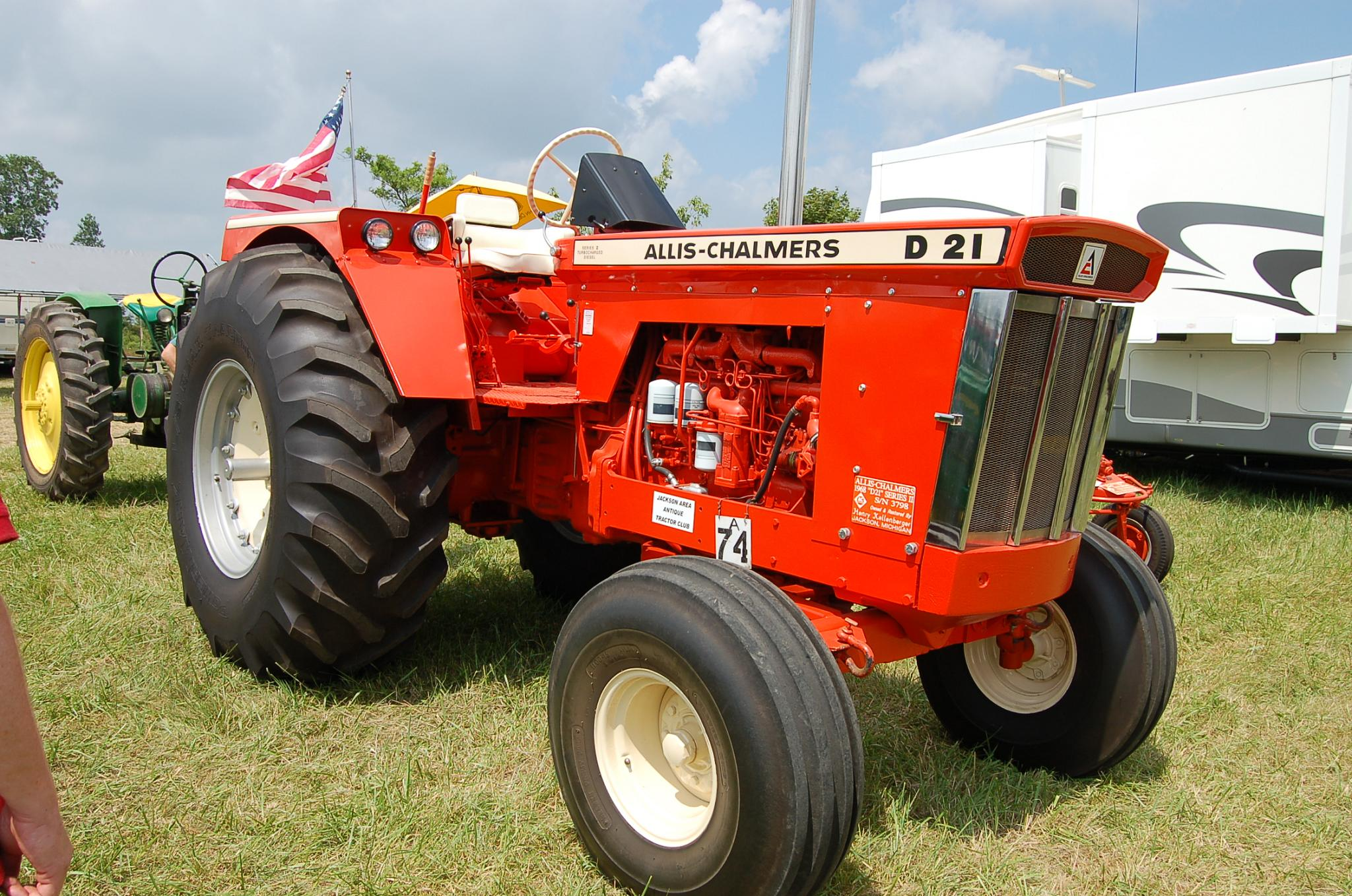 Allis Chalmers D21 Series II tractor (built 1968), taken at the 2008 Michigan Steam Engine and Threshers Club annual meet in Mason, MI, USA.